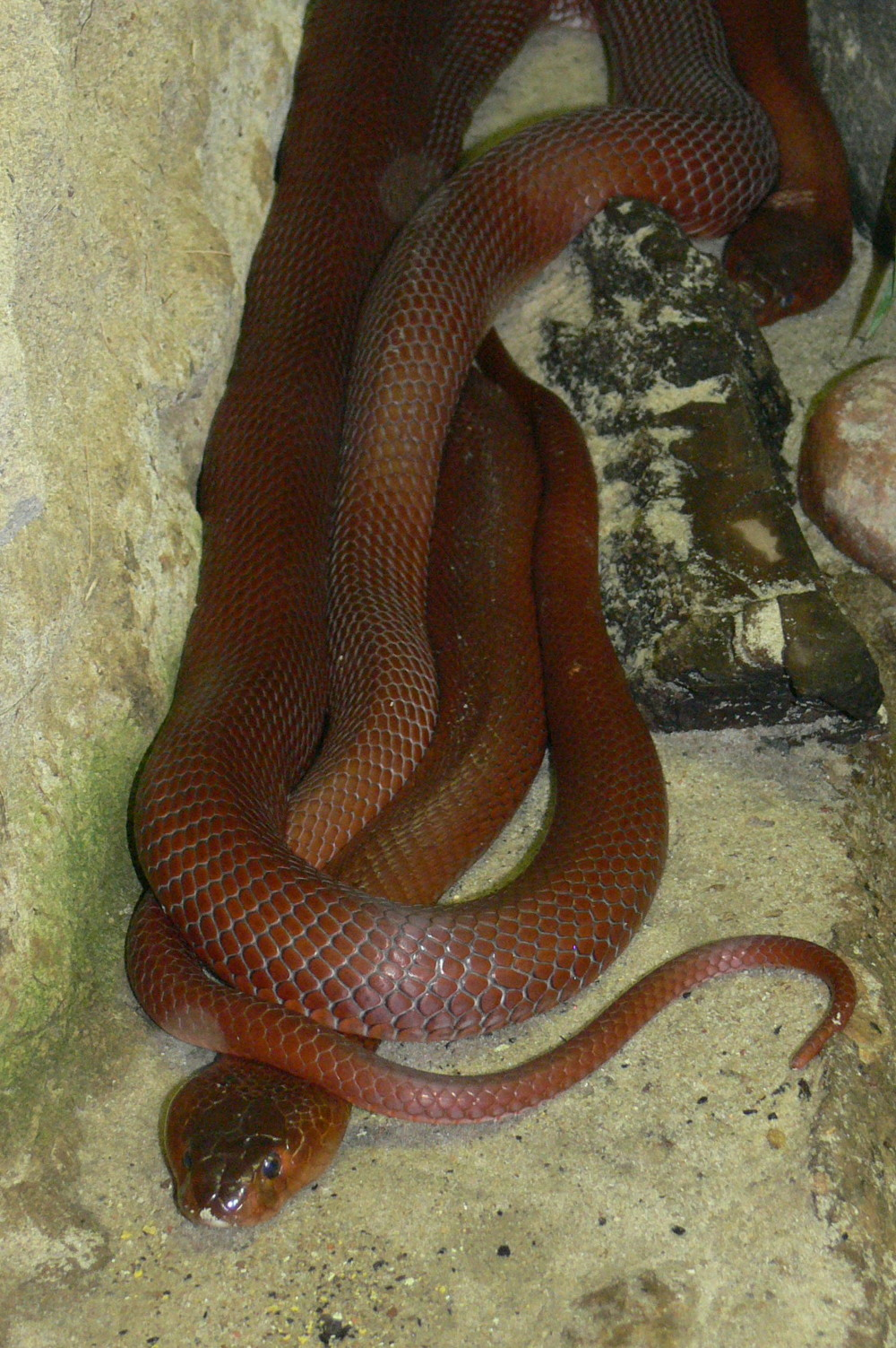 Naja pallida(previously Naja mossambica pallida) taken at the Tierpark Berlin, Germany